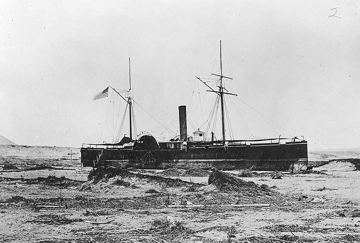 USS Wateree (1863) beached at Arica, Chile, 430 yards above the usual high water mark, after she was deposited there by a tidal wave on 13 August 1868. Her iron hull was reasonably intact, but salvage was not economical, and she was sold where she lay.